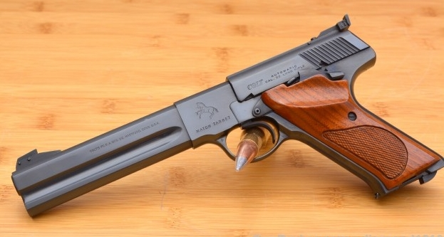 Colt Woodsman Match Target .22 Rimfire Pistol